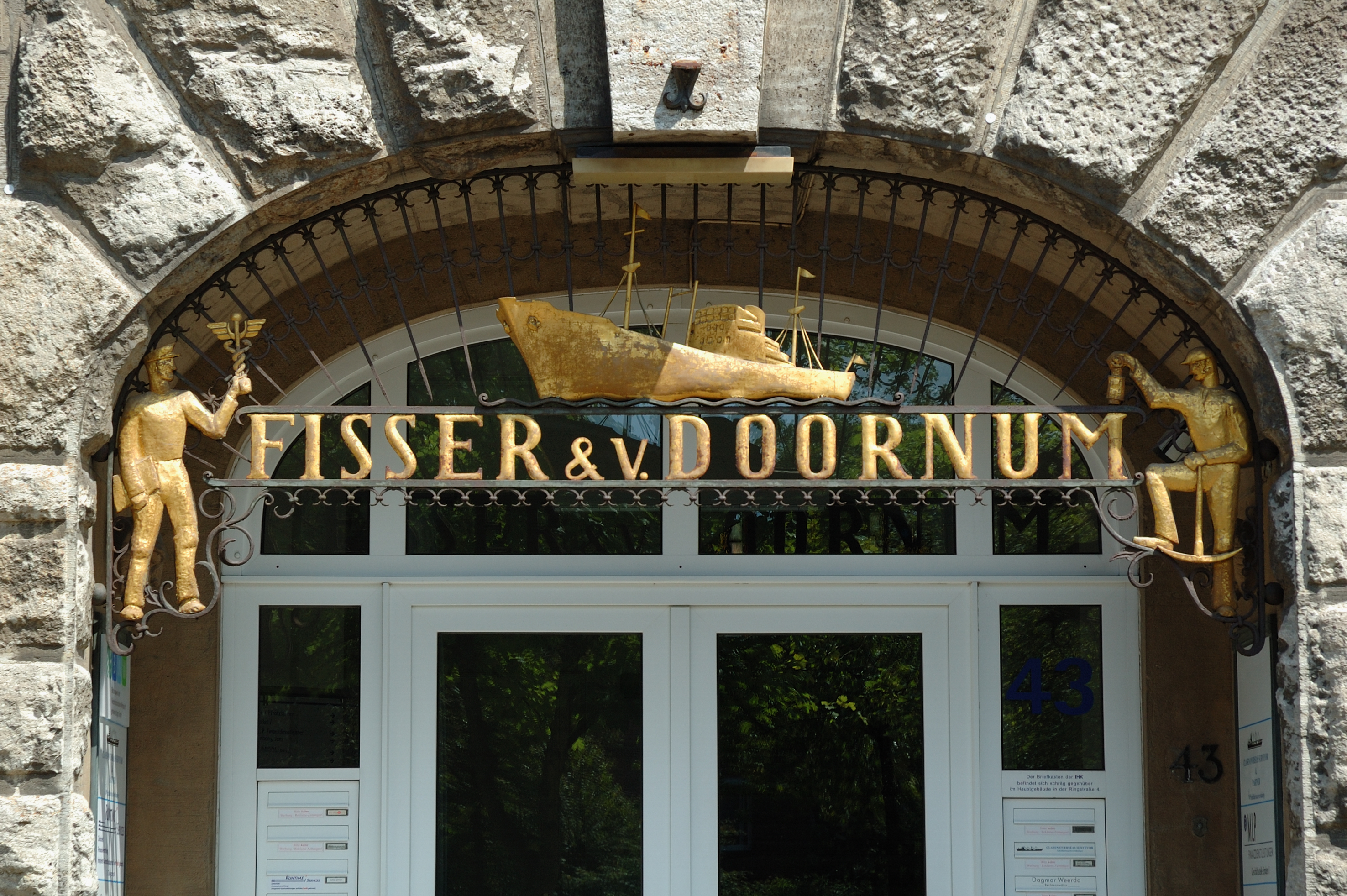 Sign of former company Fisser & v. Doornum in Ringstr. 43, Emden. (A subsidiary with the same name is still active as a shipping company, with seat in Hamburg.)